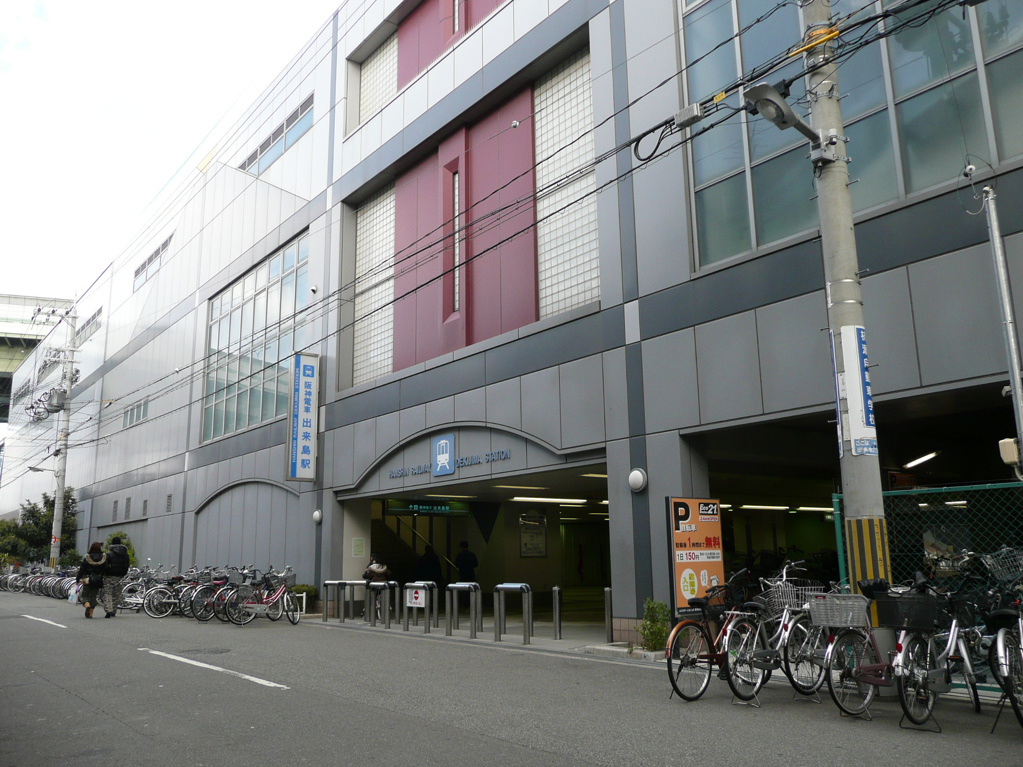 Hanshin Electric Railway,Nishi-Osaka Line,Dekijima Station west entrance. /阪神西大阪線出来島駅西側出入口